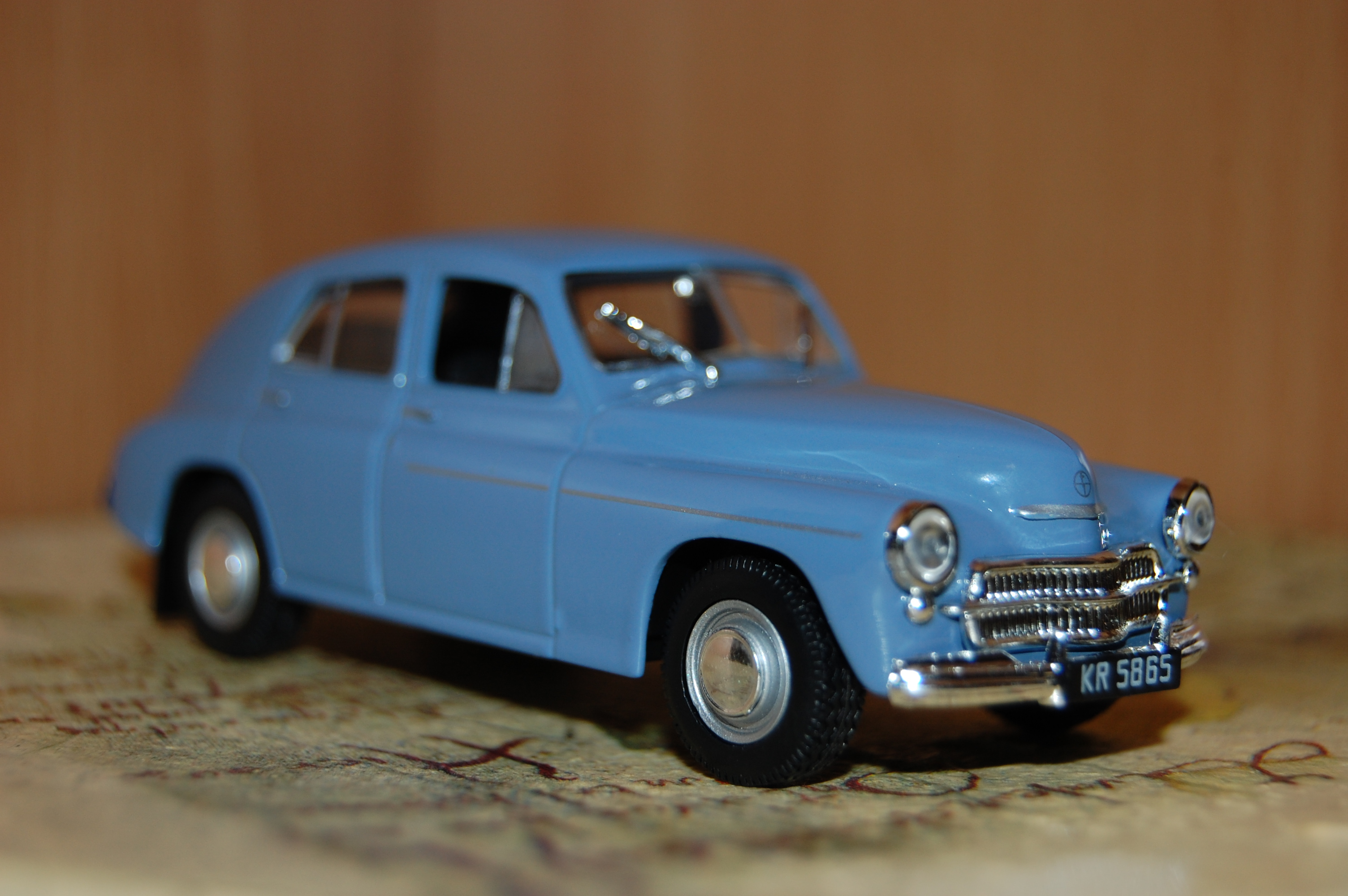 Warszawa M20 model car